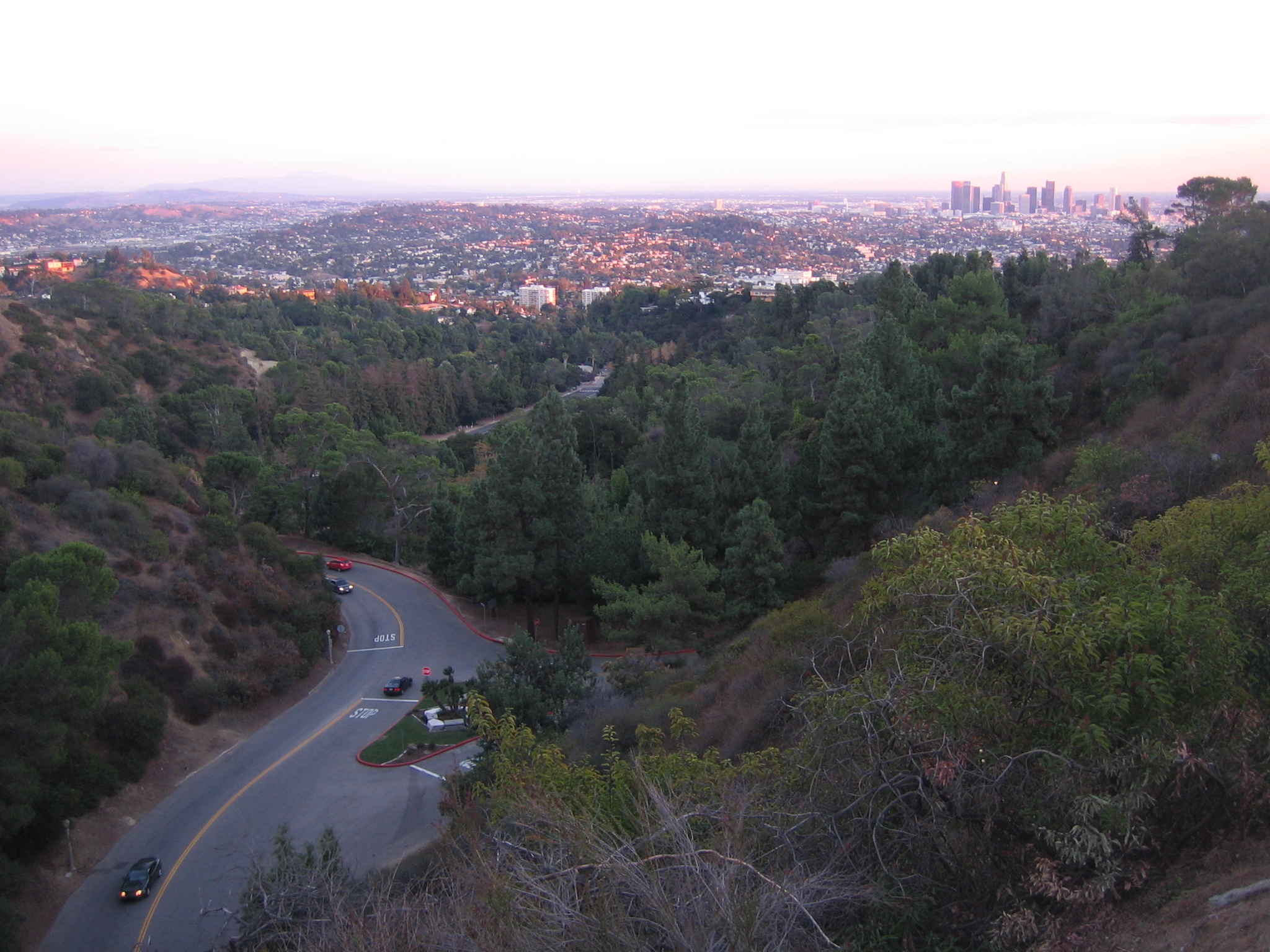 A view of downtown Los Angeles, California, from a trail in Griffith Park a short hike north from the Griffith Observatory